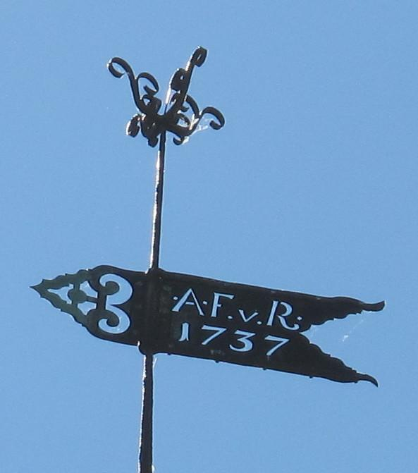 Weather vane from 1737 on the steeple of the Village church Wildenbruch. Listed Fieldstone church, built in the 13th century. The timber framed addition on the center of the west tower was built in 1737 and after modifications in the meantime1992 reconstructed according to the plans from 1737. Contrary to many different depictions it is no Fortified church (german: Wehrkirche). Wildenbruch is a part of Michendorf in the district Potsdam-Mittelmark, state Brandenburg, Germany.